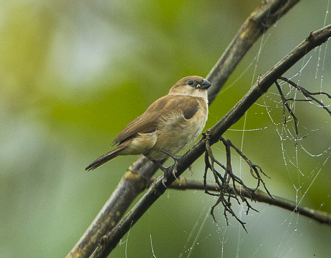 Bar-breasted Firefinch fem - Kakum - Ghana_S4E2515